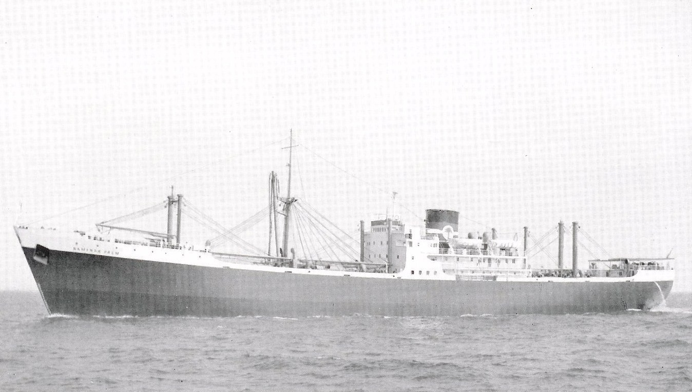 MV Bamenda Palm (1956)